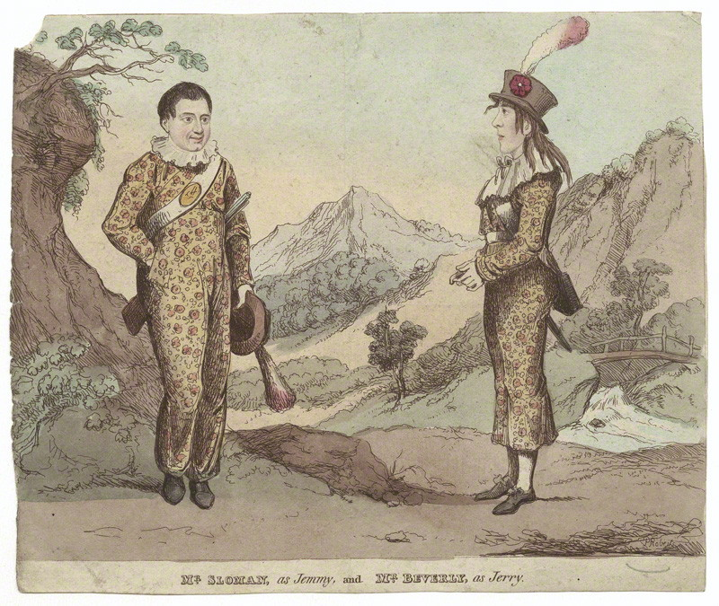 Hand-coloured etching of John Sloman and Henry Roxby Beverley